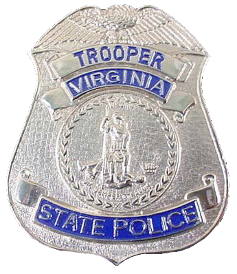 Image is similar, if not identical, to the Virginia State Police badge. Made with Photoshop.